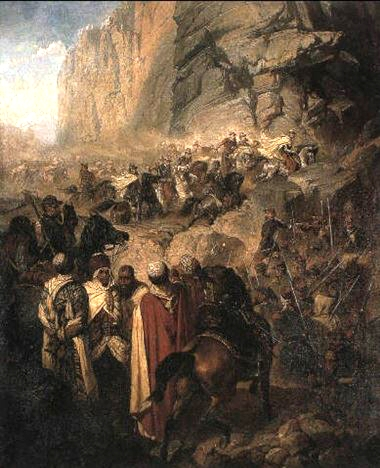 Marshal Randon in Kabylie